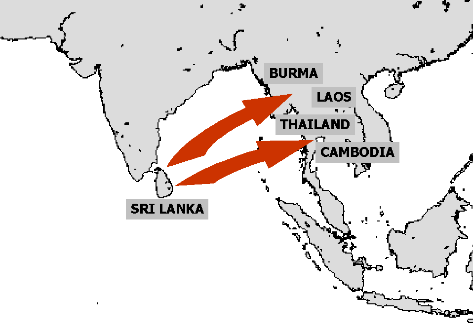 Expansion of Theravada. Personal creation.